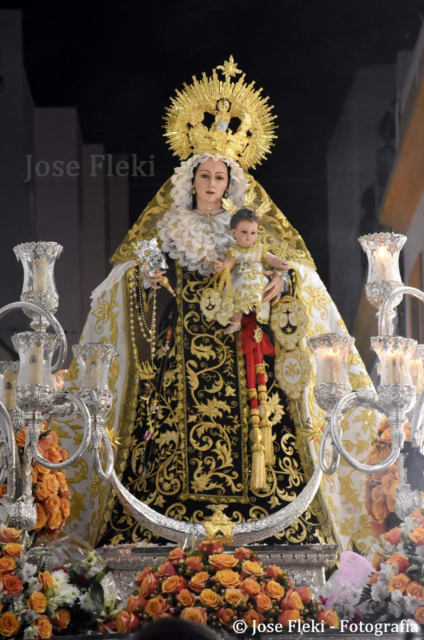 Virgen del Carmen